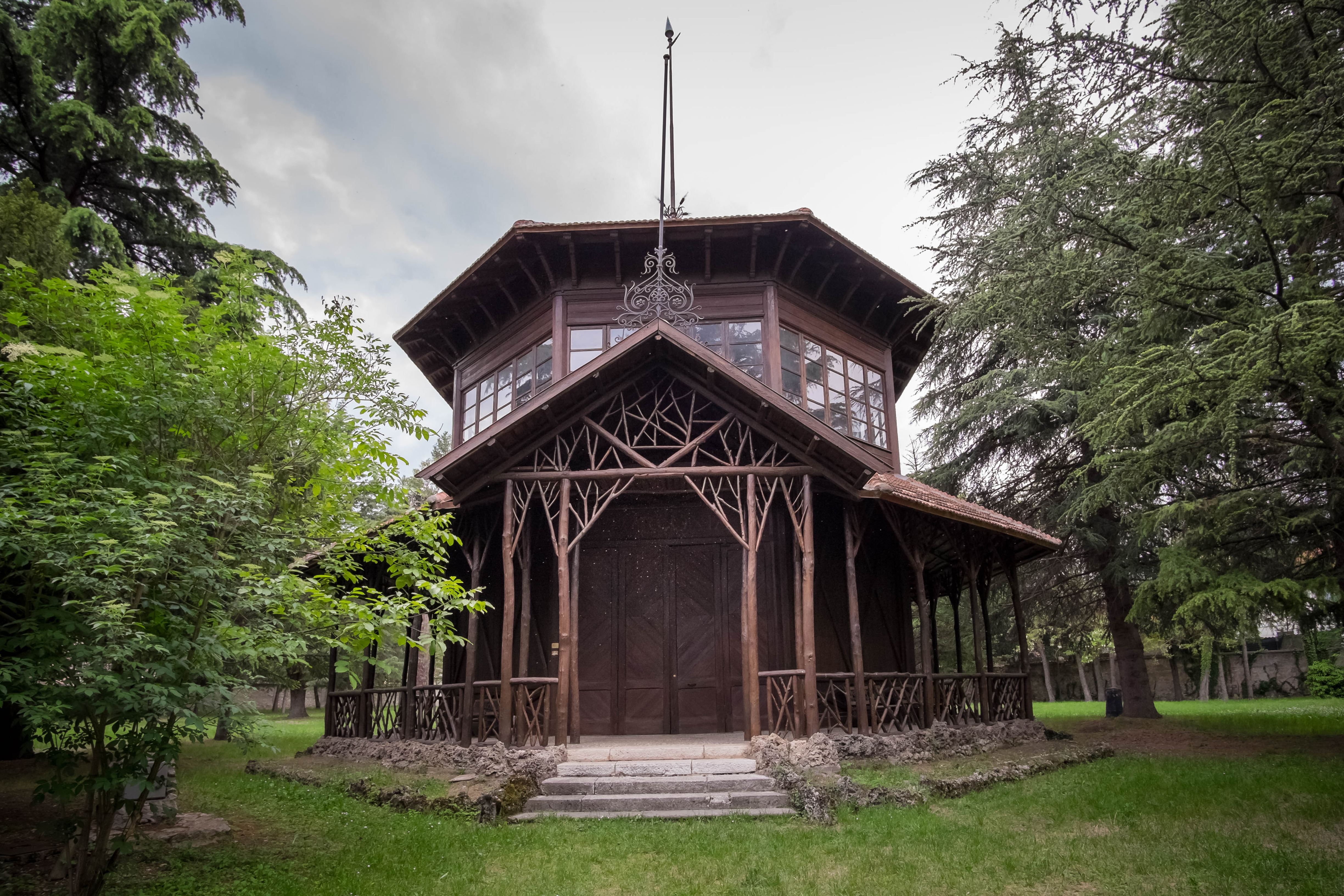 Pavilion Torlonia, Avezzano, Abruzzo, Italy